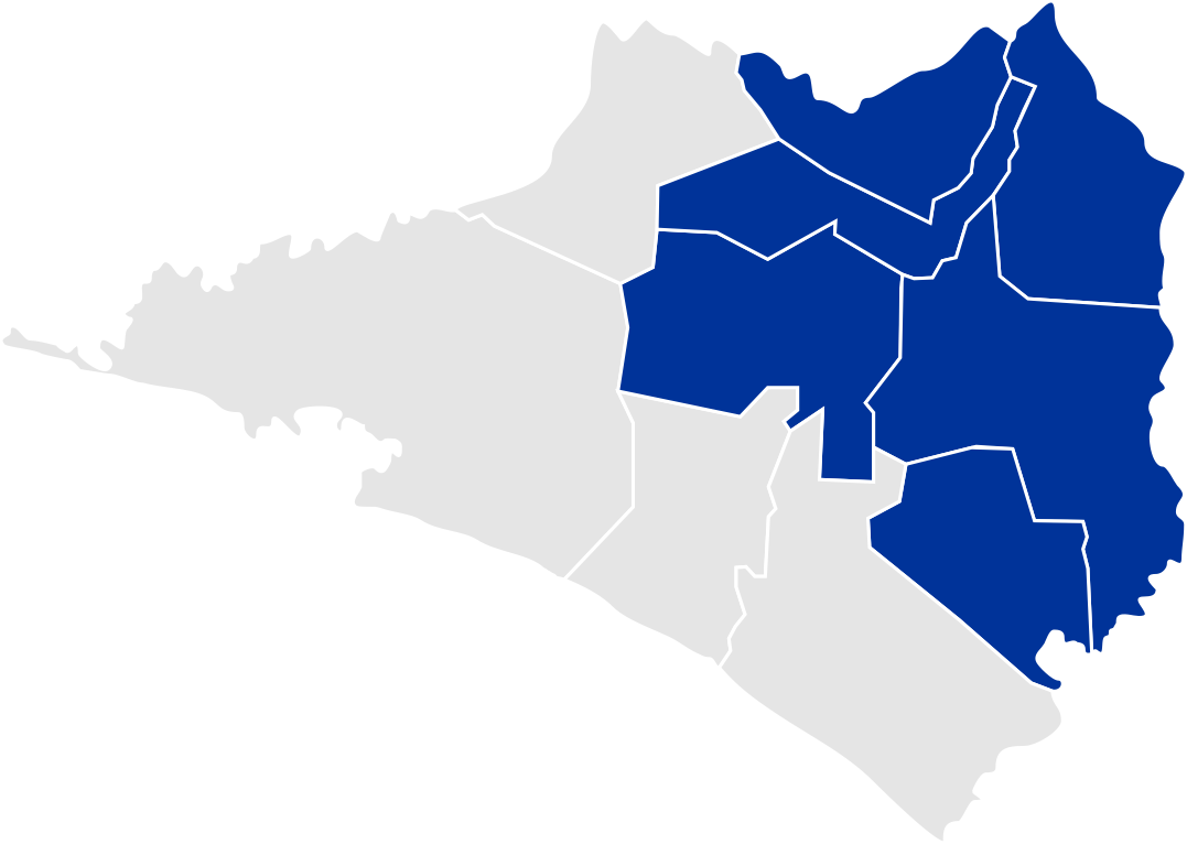 Map of the First Federal Electoral District of the State of Colima, México.